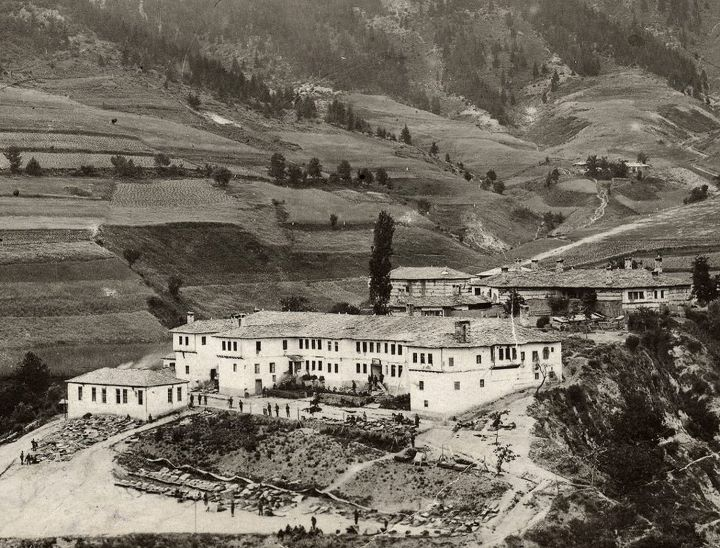 Residence of Salih aga in Pashmakli (Smolyan) in 1919.